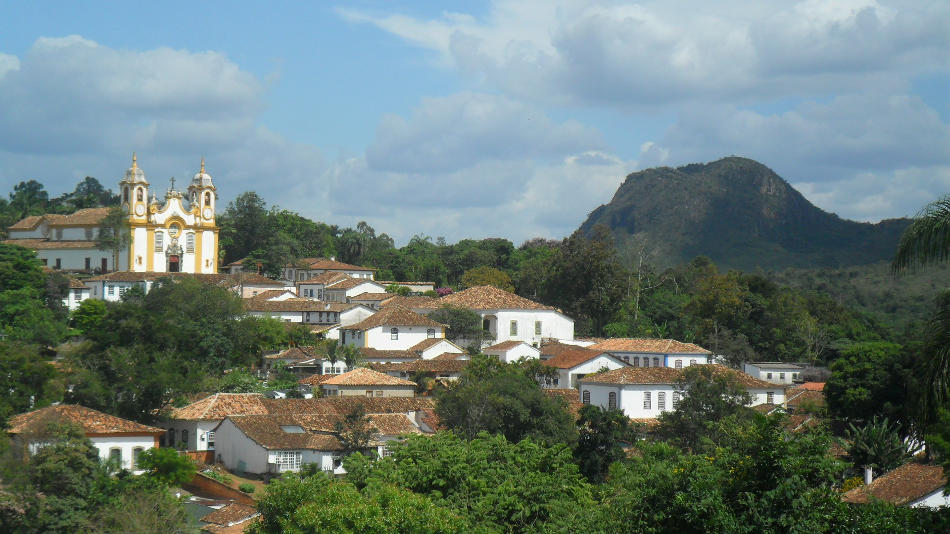 Saint Anthony's Church in Tiradentes, Minas Gerais, Brazil